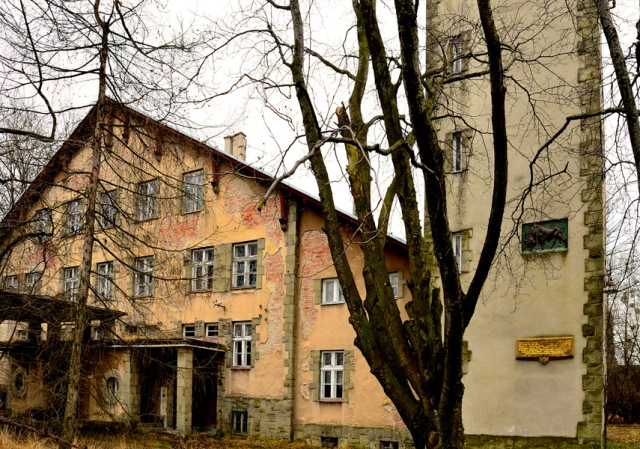 Stanica ZHP Górki Wielkie